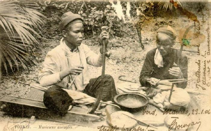 Blind artist performing xẩm in Vietnam during the French domination.